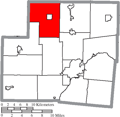 Map of the municipal and township boundaries of Shelby County, Ohio, United States, as of the 2000 census, with the location of Van Buren Township highlighted. Township borders are shown only in unincorporated areas in order to differentiate incorporated and unincorporated areas more clearly.